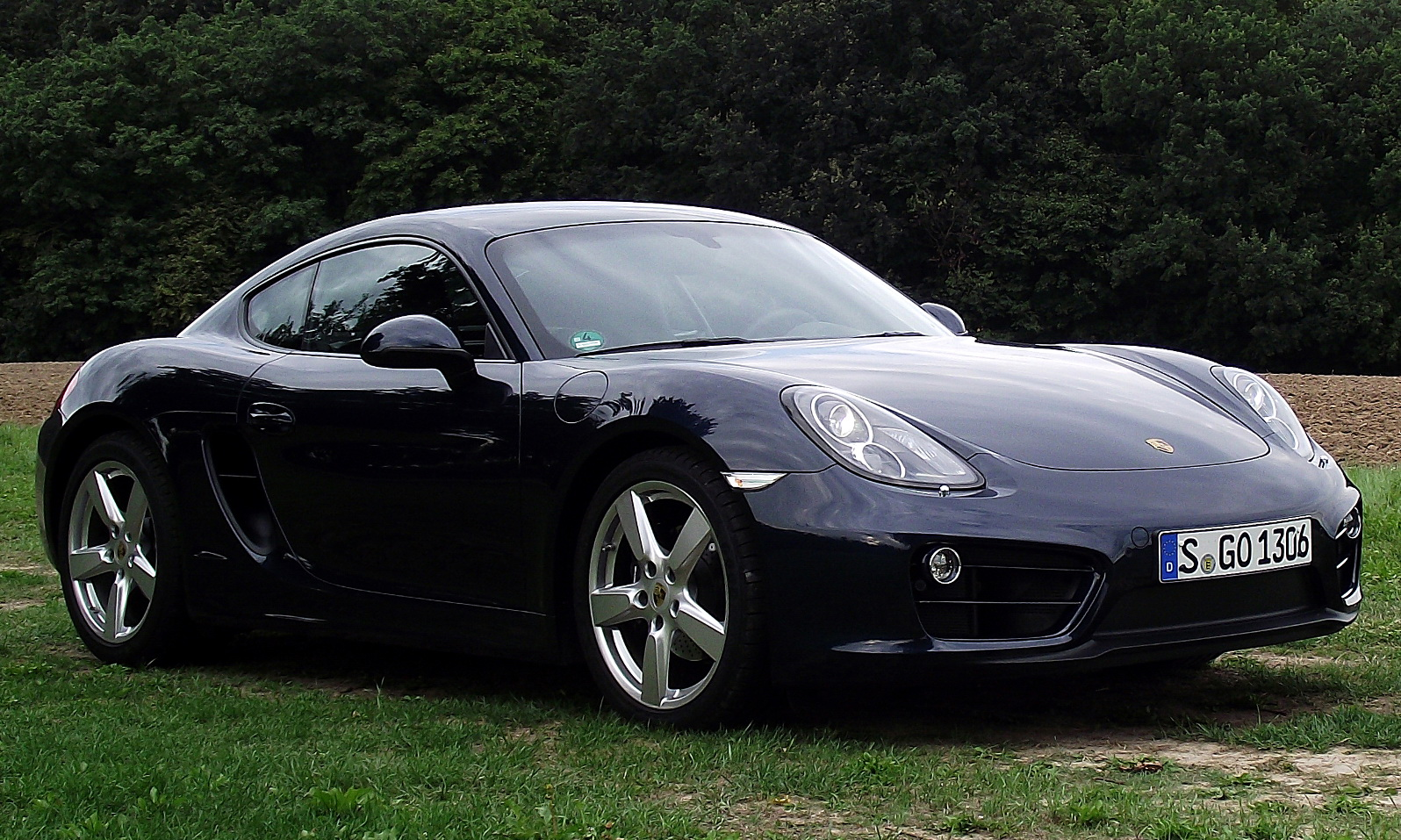 Porsche 981c Cayman